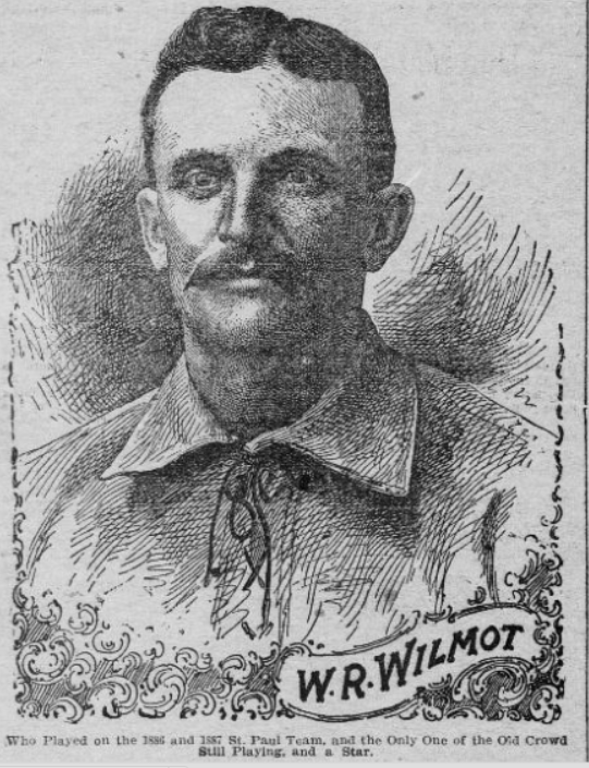 Drawing of Walt Wilmot